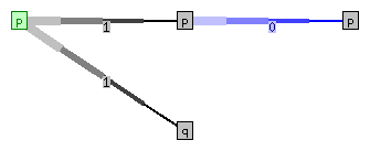 Graph of all possible runs of the nondeterministic finite automaton shown at File:NFASimpleExample.svg on the input string "10". That string is not accepted by the automaton, since no path from the start state to an accepting state exists.Arc label: input symbol, node label: state, green: start state, red: accept state(s). Since